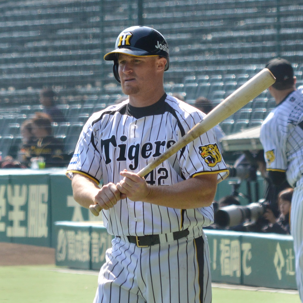 Brooks Conrad, infielder of the Hanshin Tigers, at Hanshin Koshien Stadium.